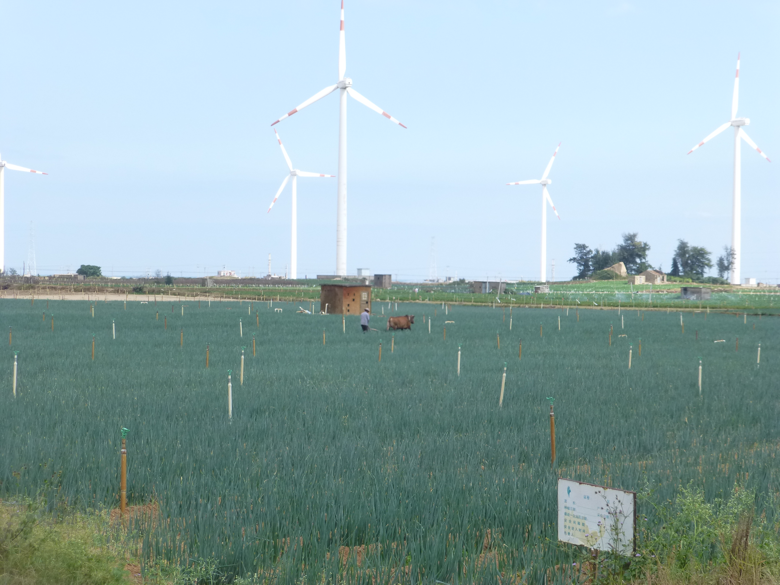 A farmer with an ox in onion field in Liu'ao